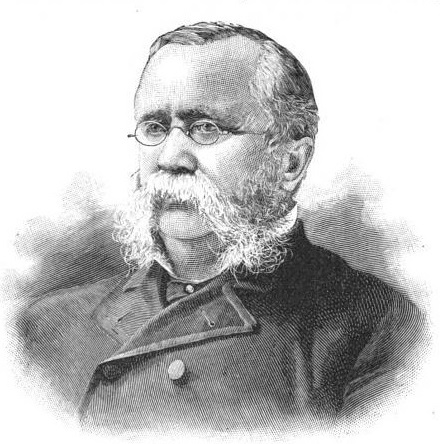 John Gilbert Sawyer, Congressman from New York